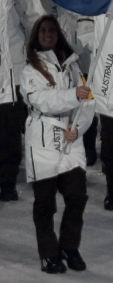 The athletes from Jamaica entering the stadium at the opening ceremonies of the 2010 Winter Olympics. Note the black armbands - this is memory of Nodar Kumaritashvili, who had died in a training accident on the luge course.